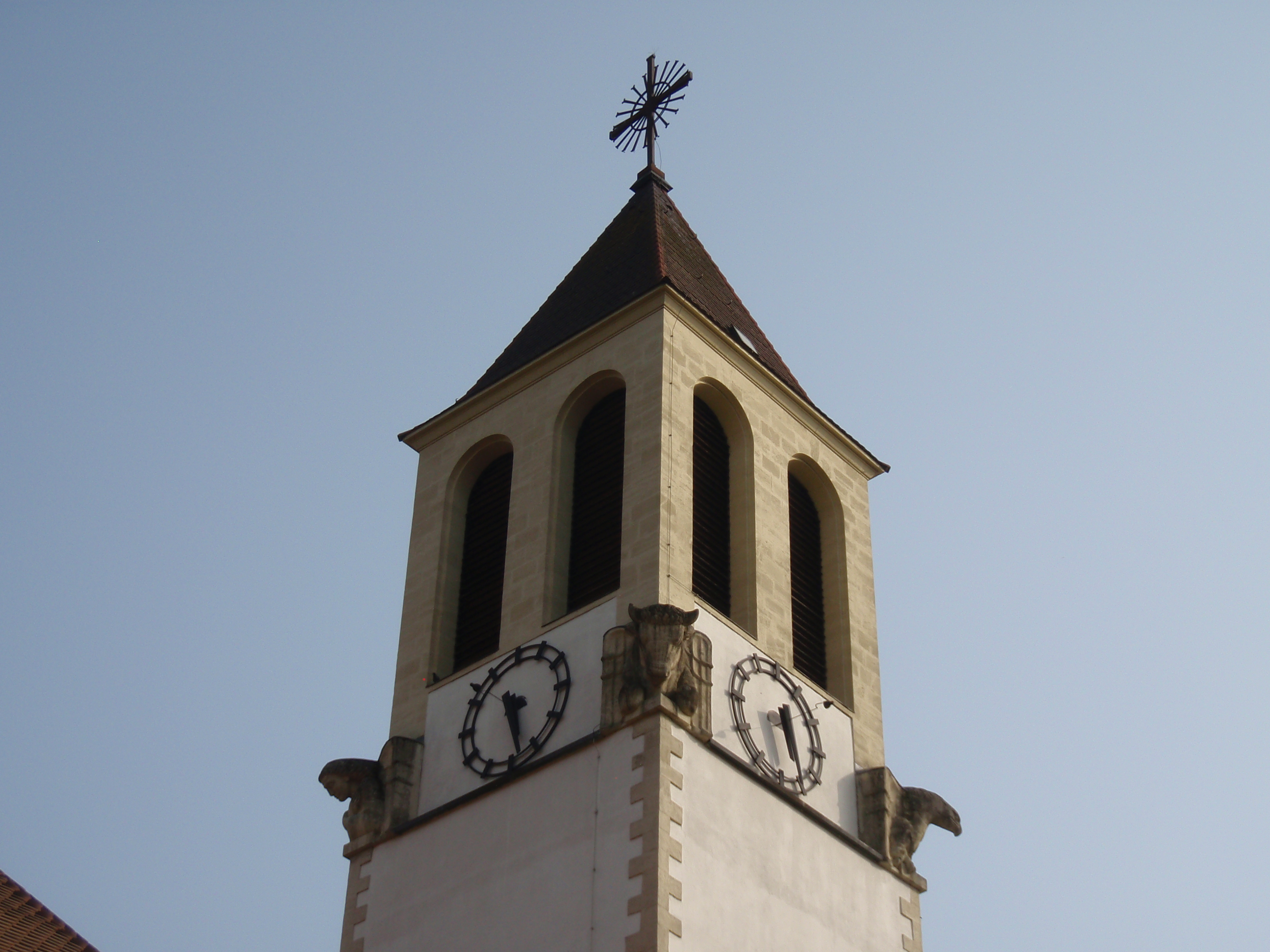 Steeple of the of the Roman Catholic Heart of Jesus Peace Church in Eichgraben named "Duomo of Vienna Woods" with the sculptures from sandstone of the Four Evangelists of Adolf Treberer-Treberspurg. To the left the Angel or Man of Matthew, to the middle the Ox or Calf of Luke an to the right the Eagle of John; the Lion of Mark is on this photo unvisible.